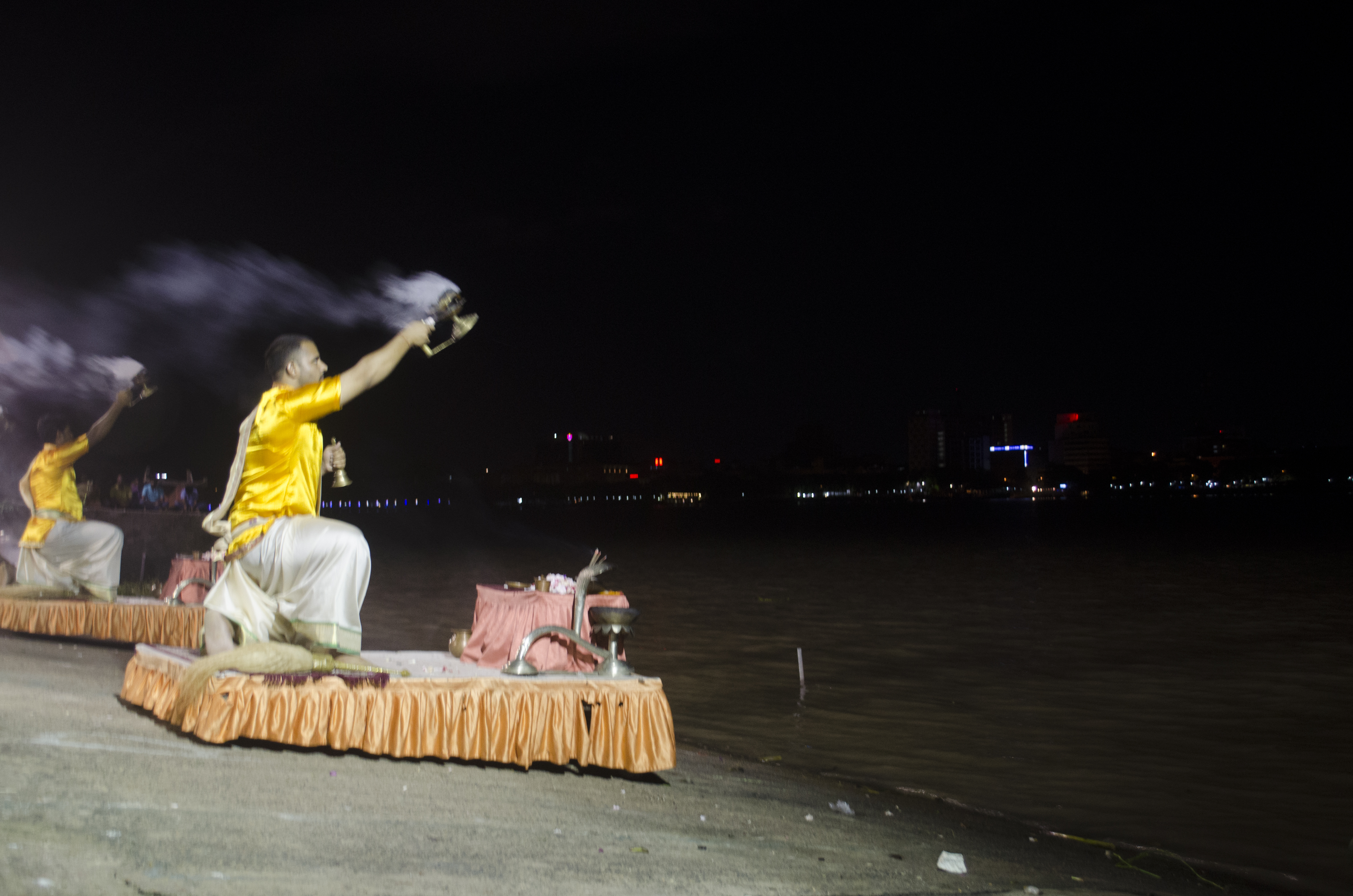 Ganga Aarti at Howrah